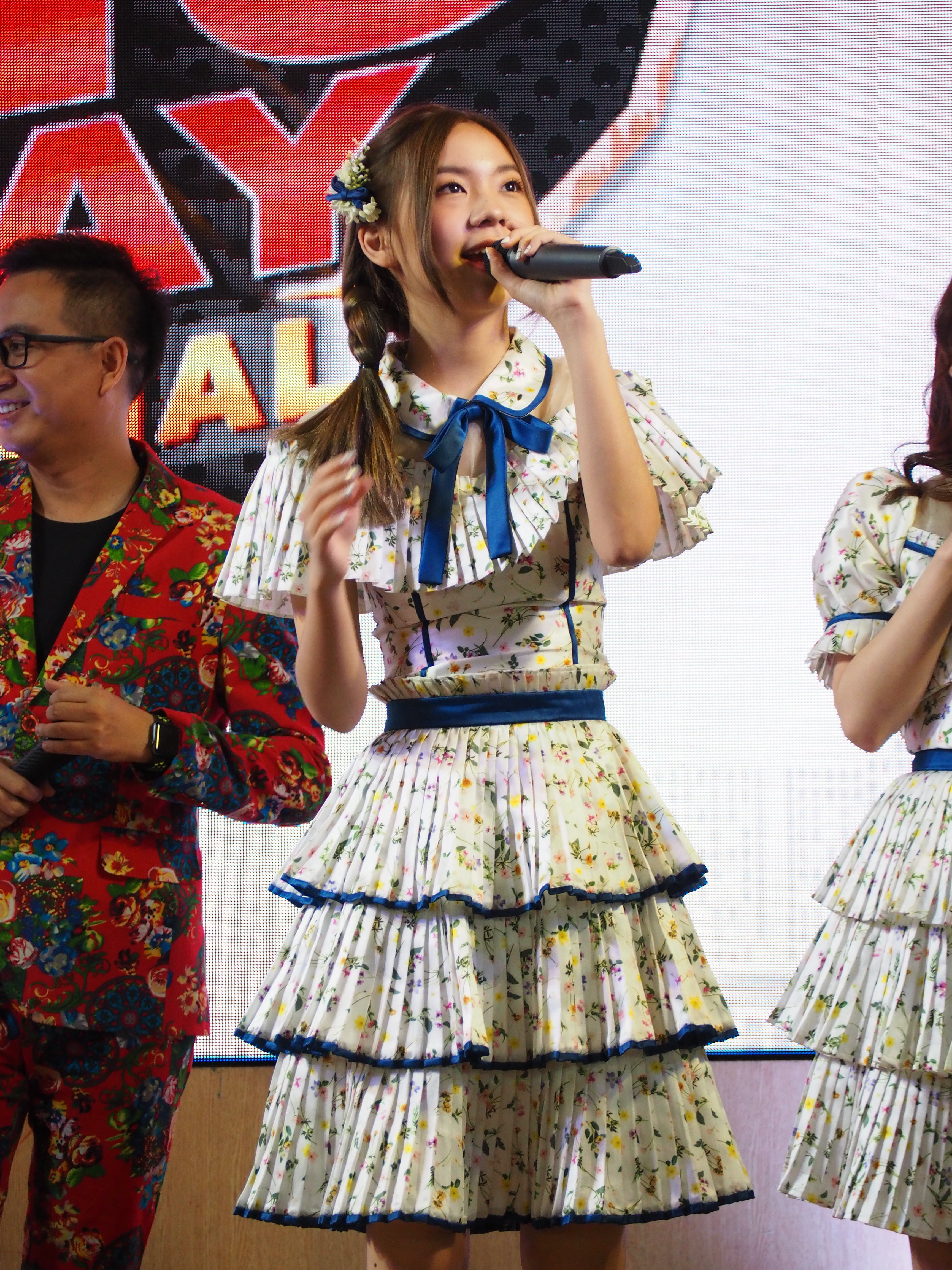 Pun BNK48 (Punsikorn Tiyakorn) @Toyota Big Day Special in Central Plaza Khon Kaen, Khon Kaen, Thailand.